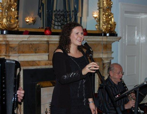 Maria Mc Cool performing at the CD launch of Doagh on the 4th December 2009.